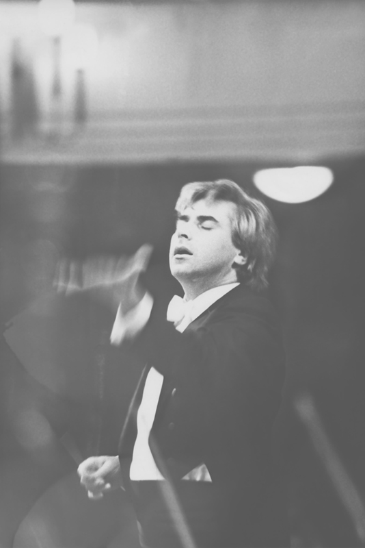 Acting in a musical celebration Chisinau Martisor.